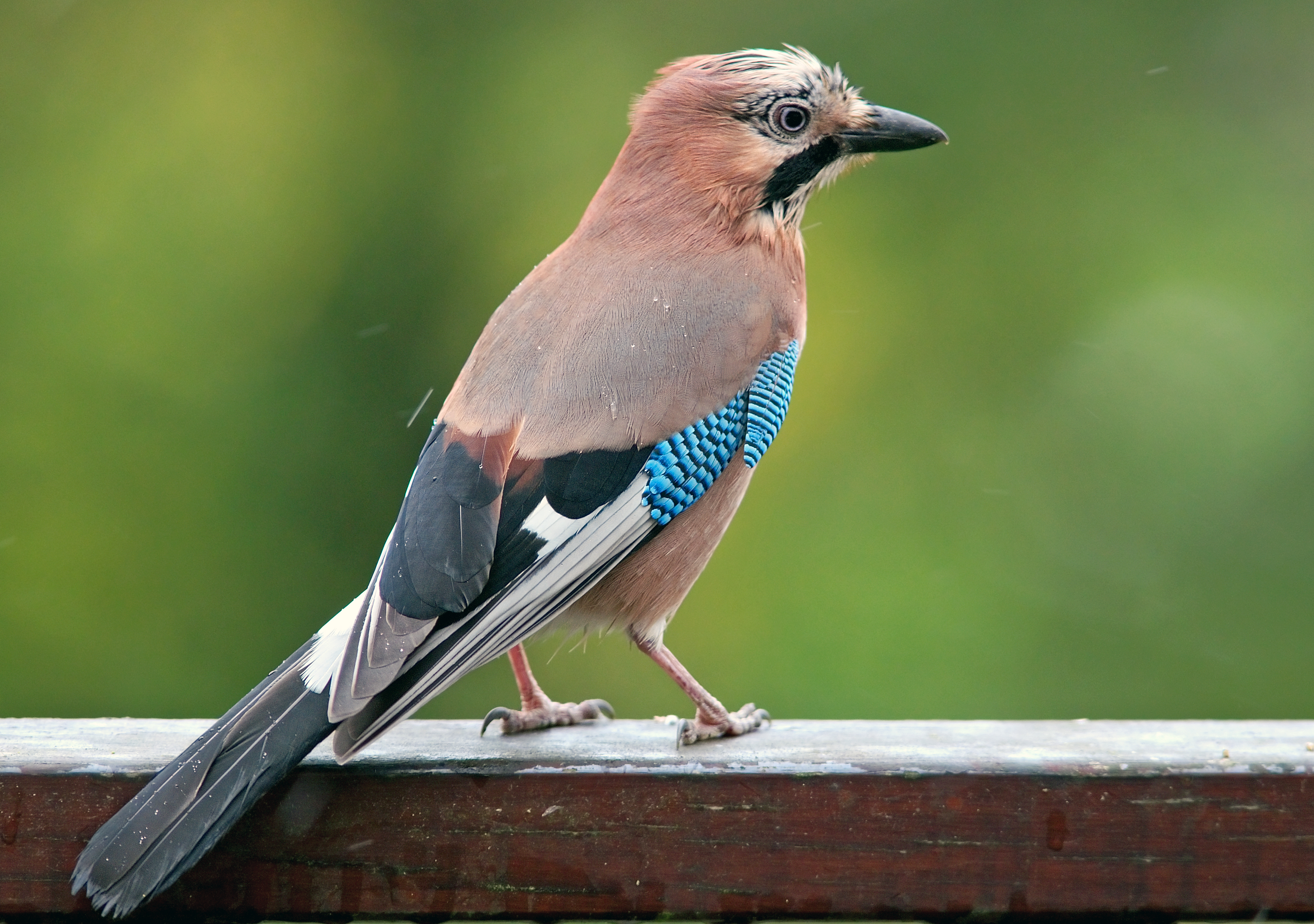 Eurasian Jay (Garrulus glandarius)